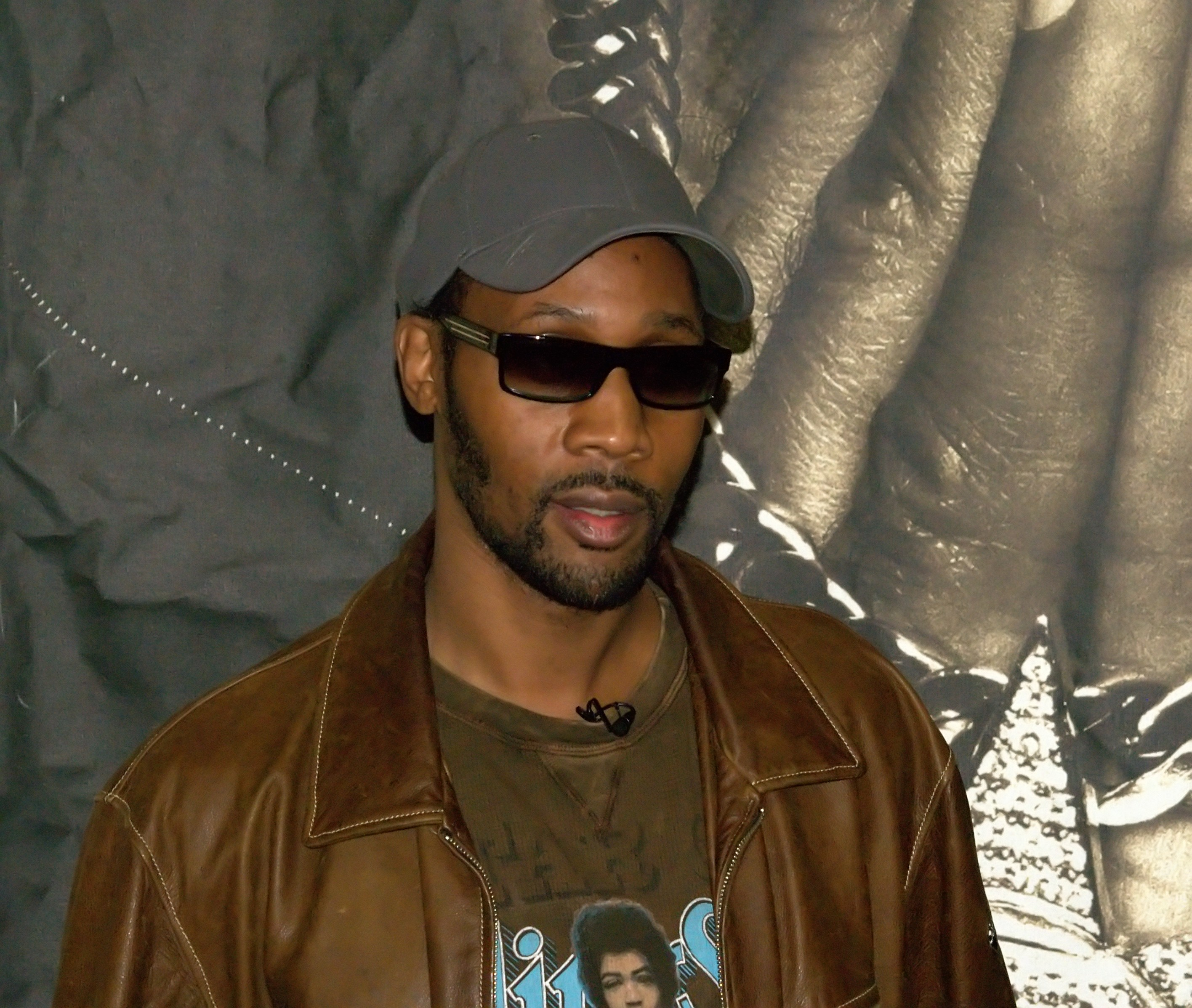 Wu Tang Clan co-founder RZA in New York City's Union Square Barnes & Noble to read from The Tao of Wu, a book about the philosophy behind the Wu Tang Clan.